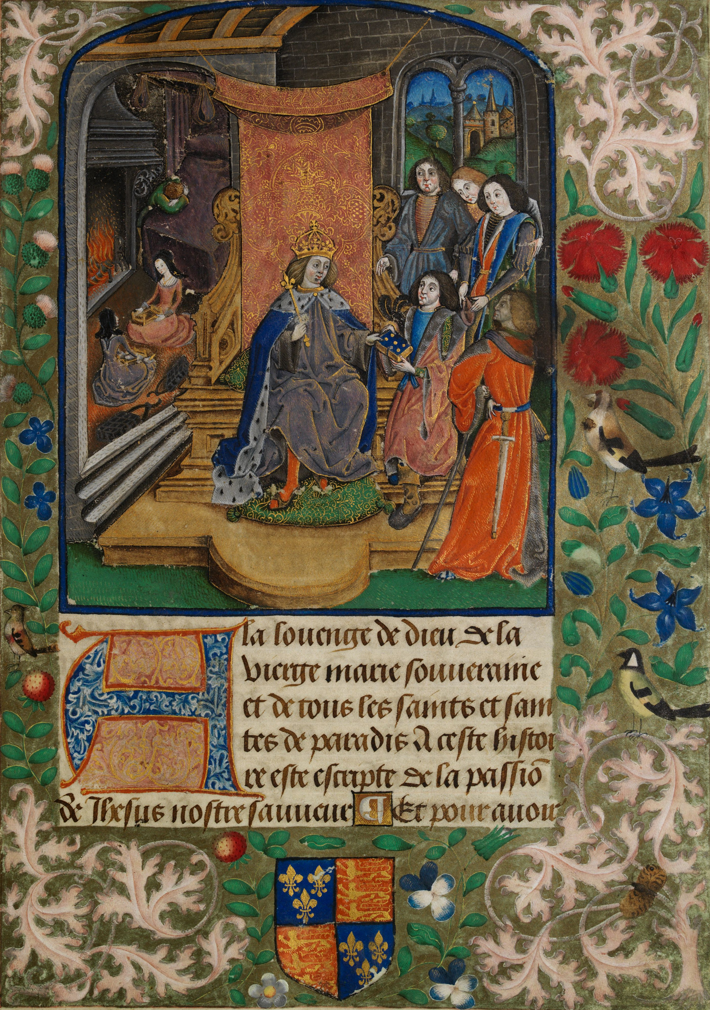 Presentation page from the Vaux Passional, Peniarth MS 482D, f. 9r. The illuminated miniature depicts Henry VII enthroned; and in the background on the left Margaret Tudor, Mary Tudor, and the future Henry VIII beside an empty bed in the aftermath of the death of Elizabeth of York.